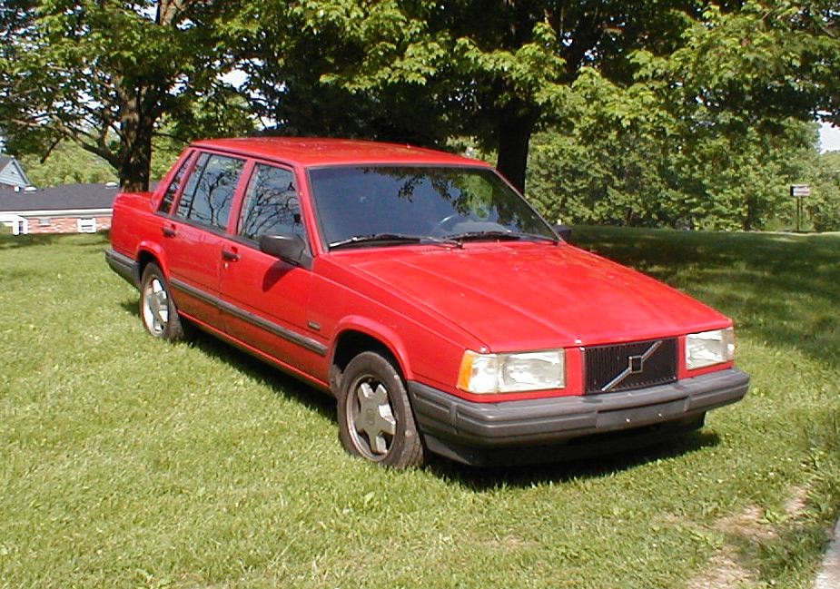 1991 Volvo 744ti SE by Michael Donnermeyer